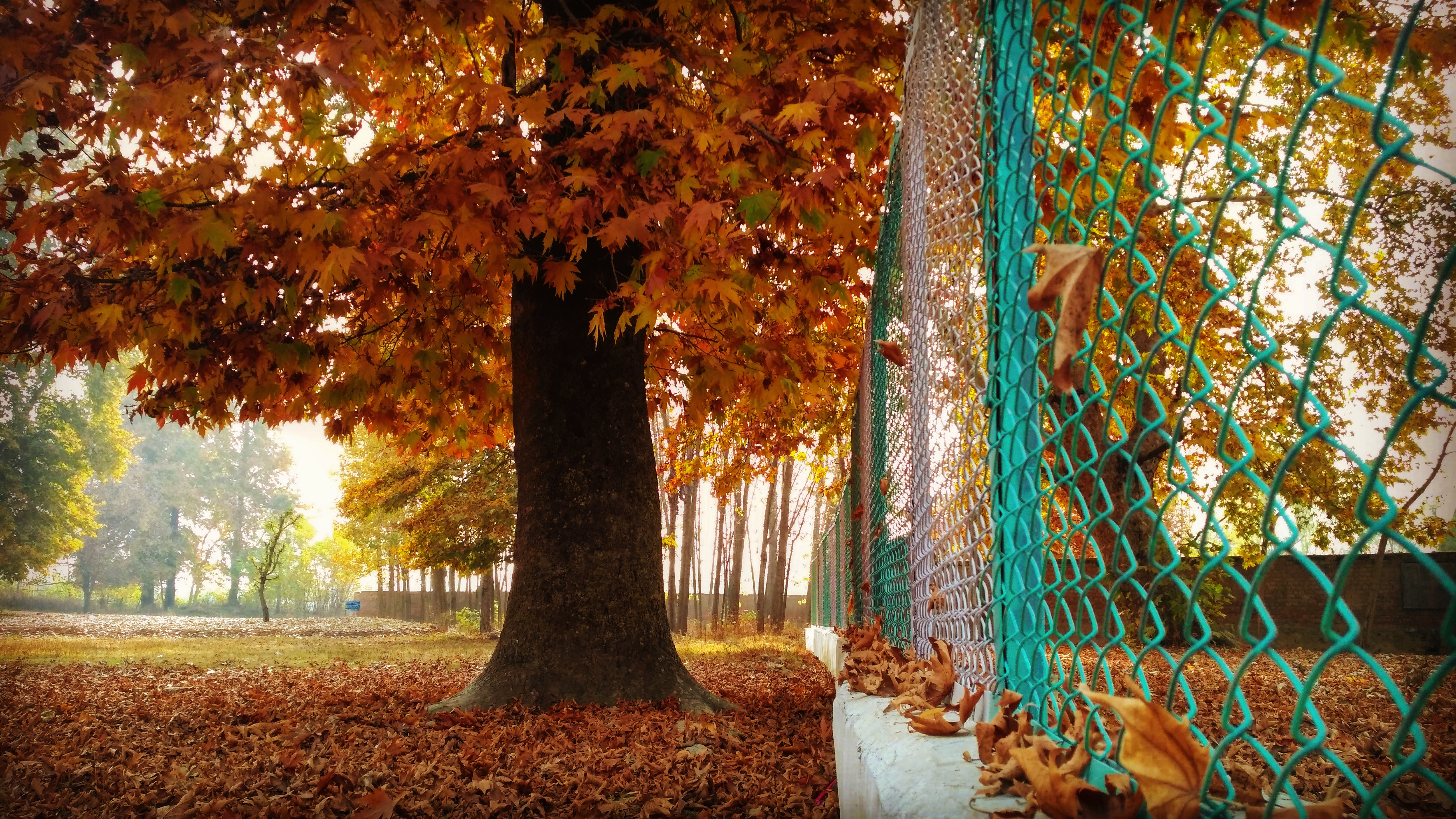 Eidgah